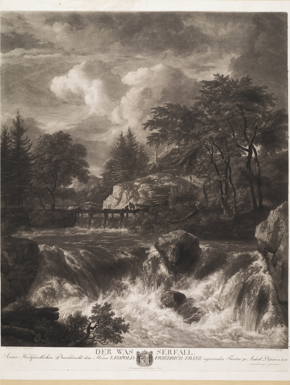 Waterfall after Ruisdael